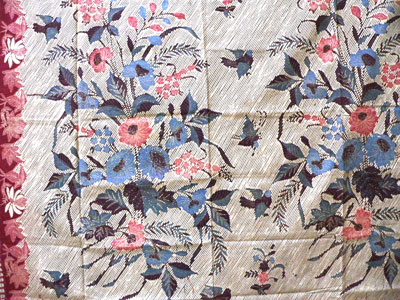 Coastal batik with buketan motif from Pekalongan, Central Java. The name buketan derived from the word "bouquet". This floral bouquet pattern first appeared during the Dutch colonial era.